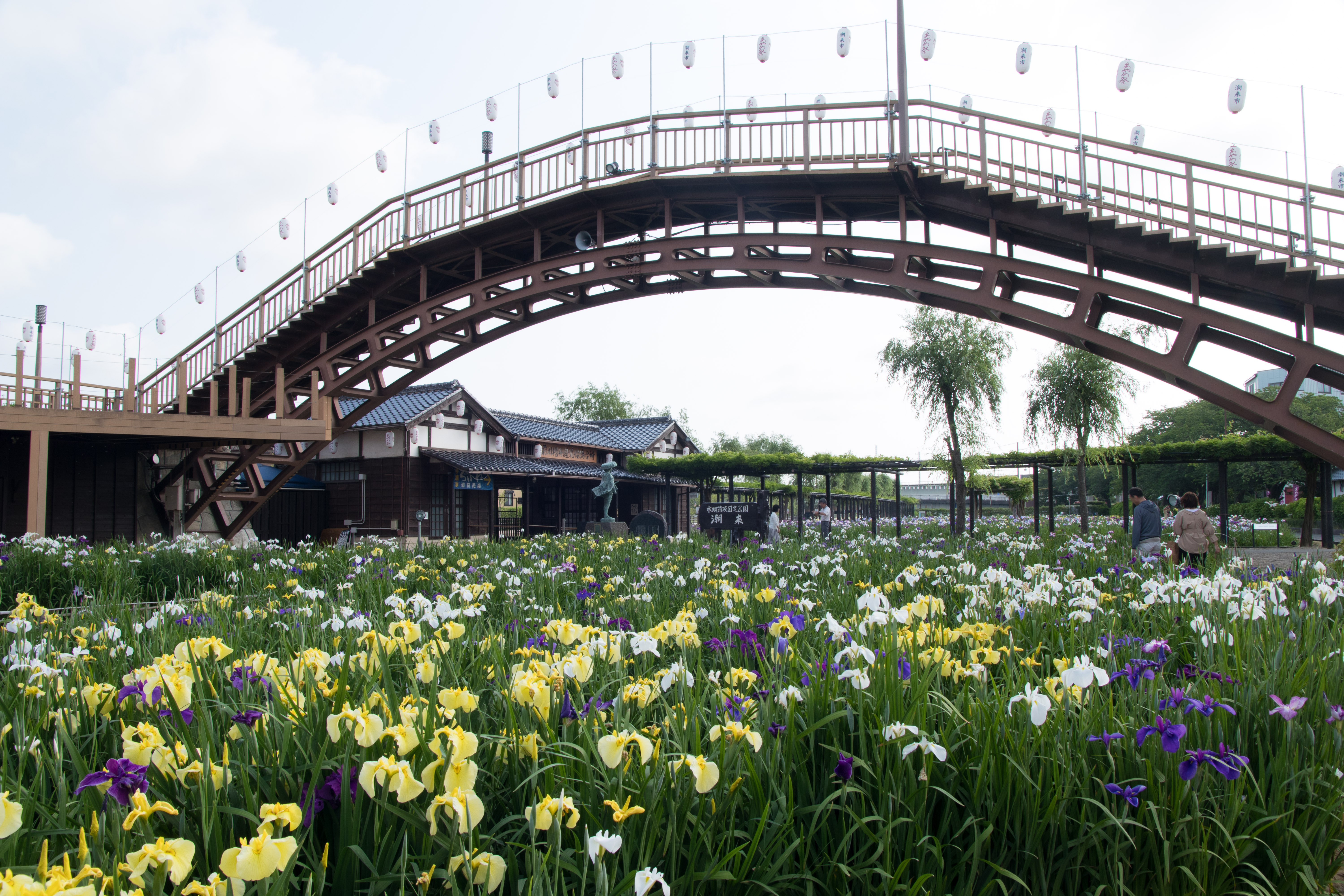 Suigo Itako Iris Garden(Suigo Itako Ayame-en), Itako City, Ibaraki Pref., Japan